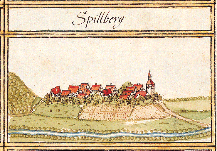 View of Spielberg, Sachsenheim, from the forest register books created by Andreas Kieser